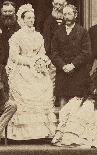 Extracted from Cospatrick Home, 11th Earl of Home; Maria, Countess of Home; Charles, 12th Earl of Home; Lucy, Countess of Home, by unknown artist.